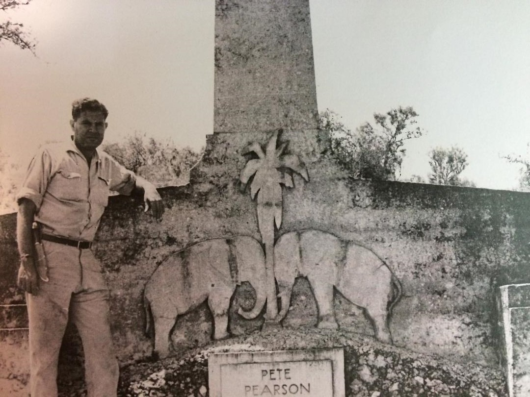 Monument to Pete Pearson, Uganda 1962